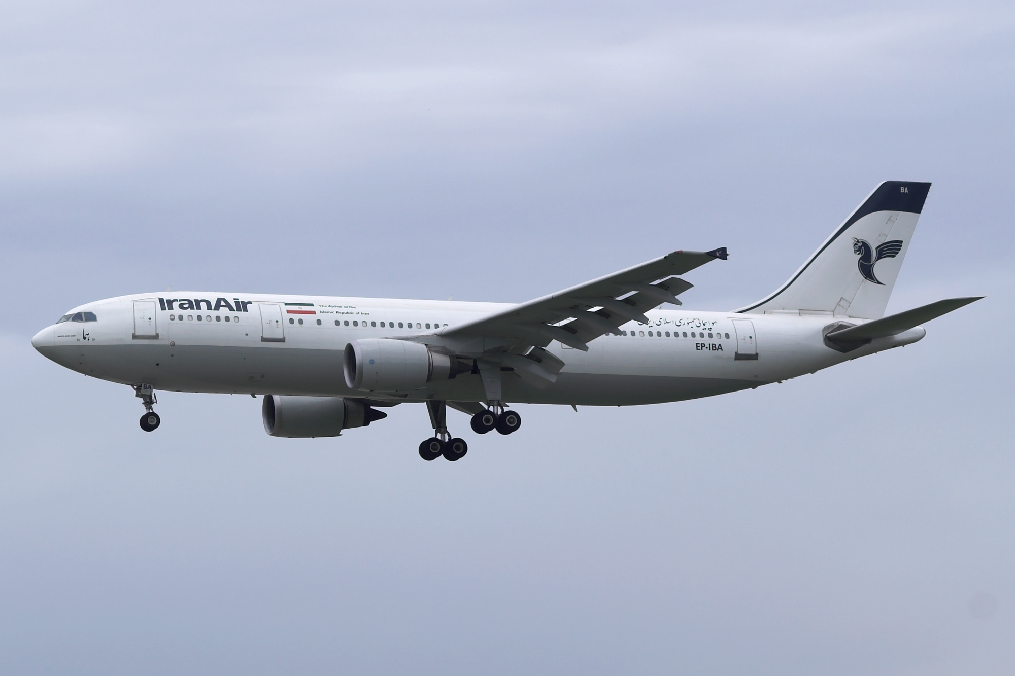 Iran Air Airbus A300-600 EP-IBA landing at Frankfurt Airport